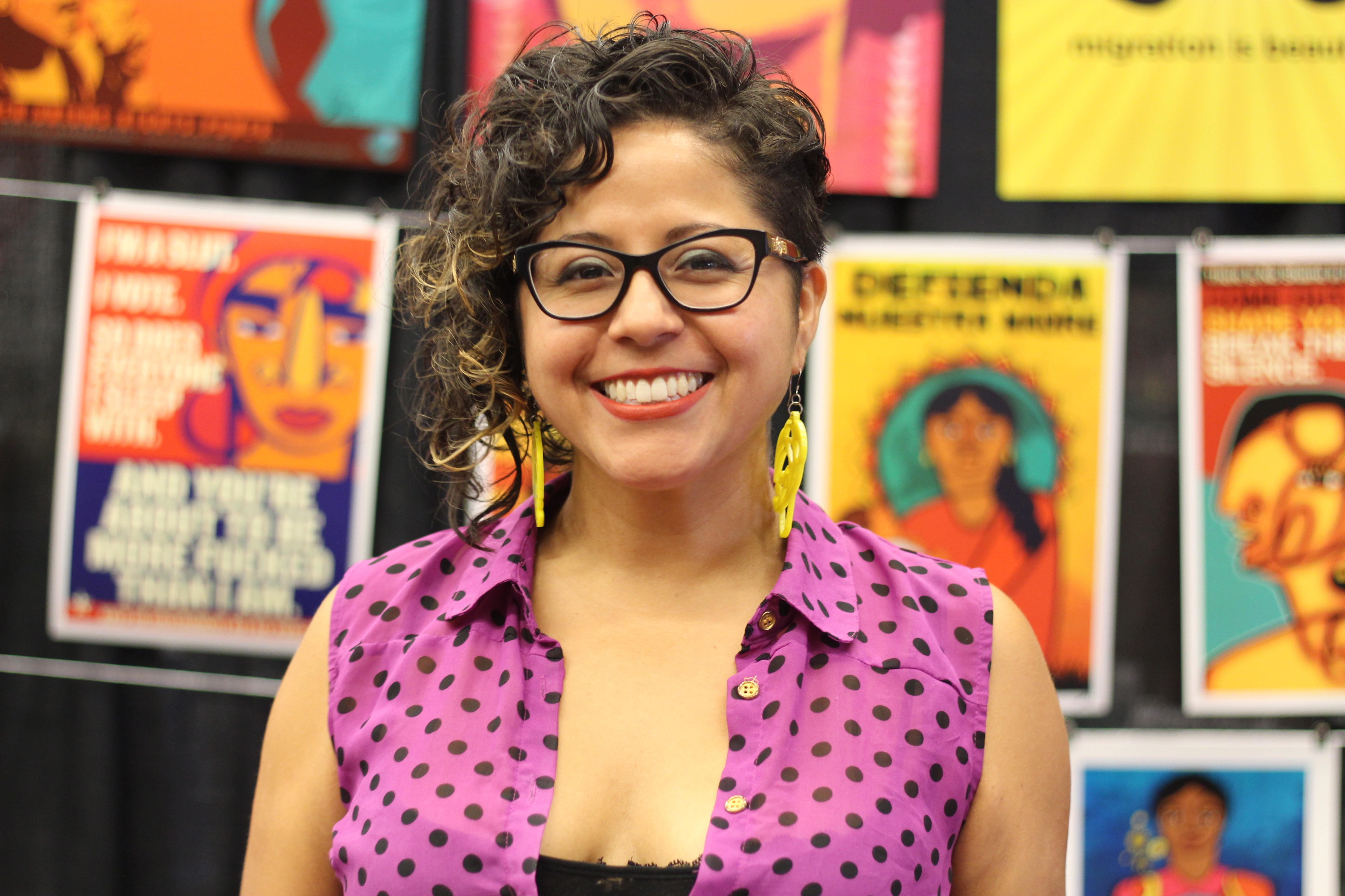 Artist and activist Favianna Rodriguez attends the National Women's Studies Association's annual conference in November 2016 in Montreal, Quebec.